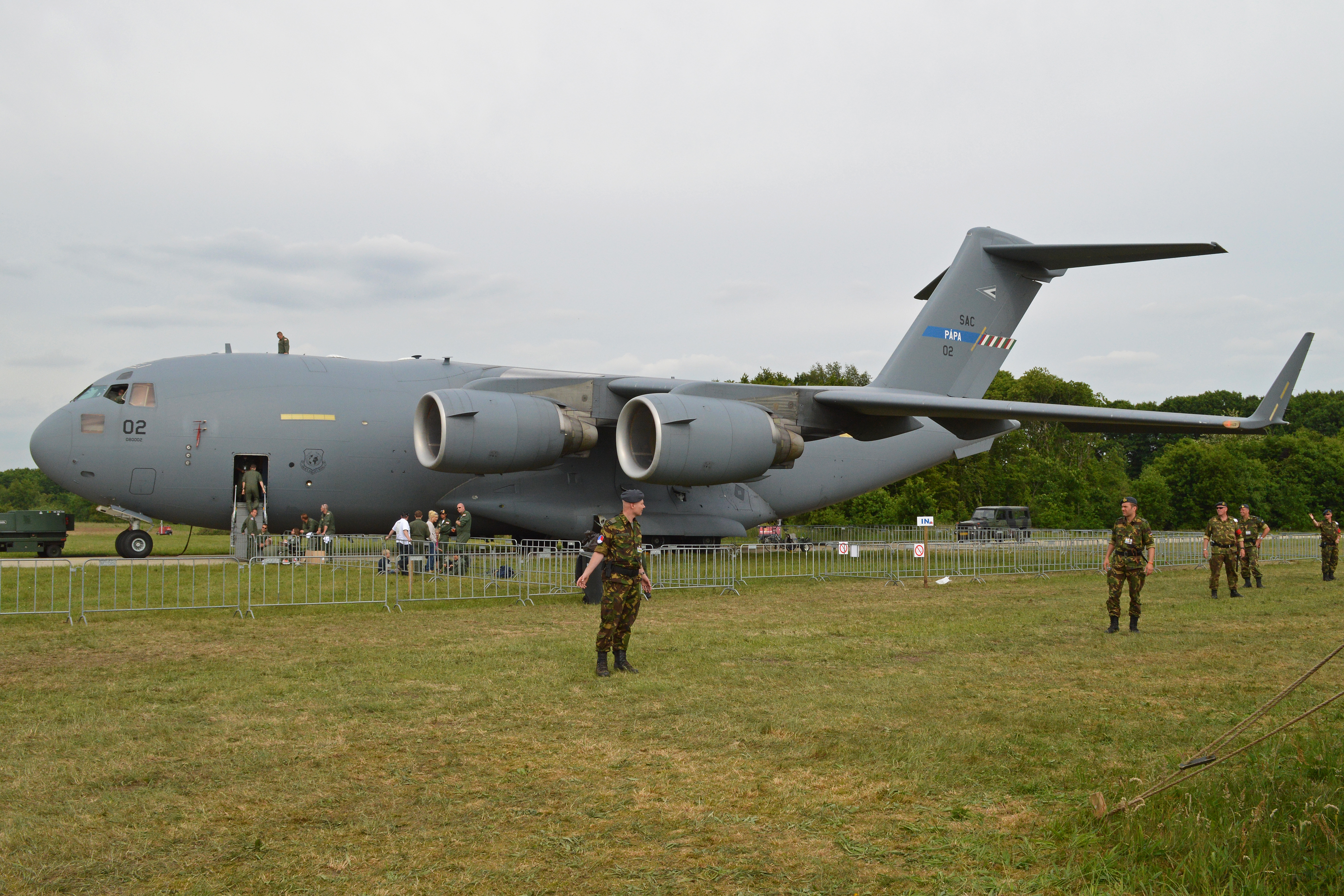 NATO's transport wing is based at PAPA air base in Hungary. The units four C-17s wear Hungarian AF markings. This example is c/n F210 and l/n SAC02. It is also allocated US military serial 08-0002. On static display at the '100th Anniversary of Dutch military aviation' airshow. Volkel Air Base, Netherlands. 14-6-2013